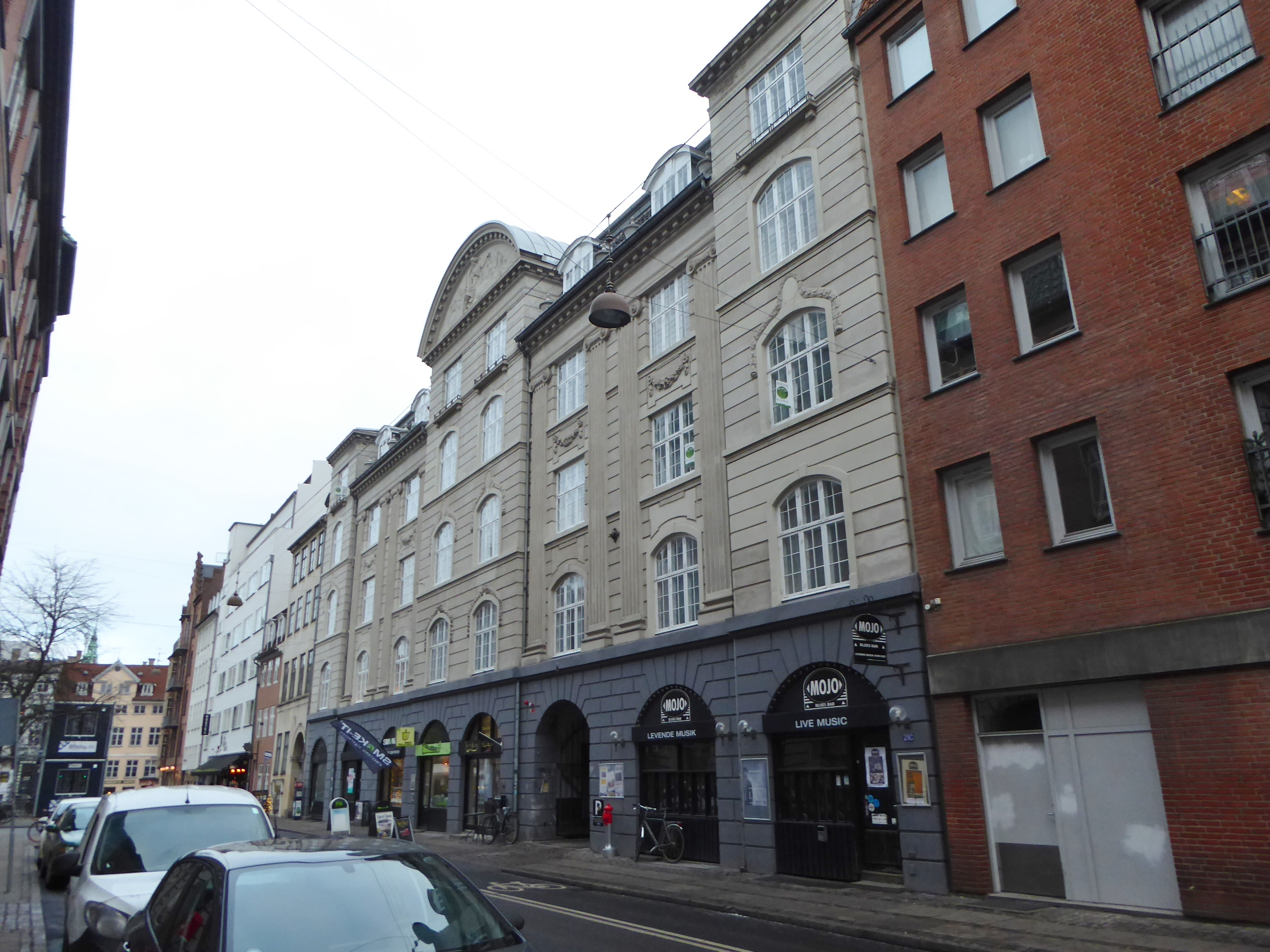 Apartment building at Løngangstræde in Indre By in Copenhagen.